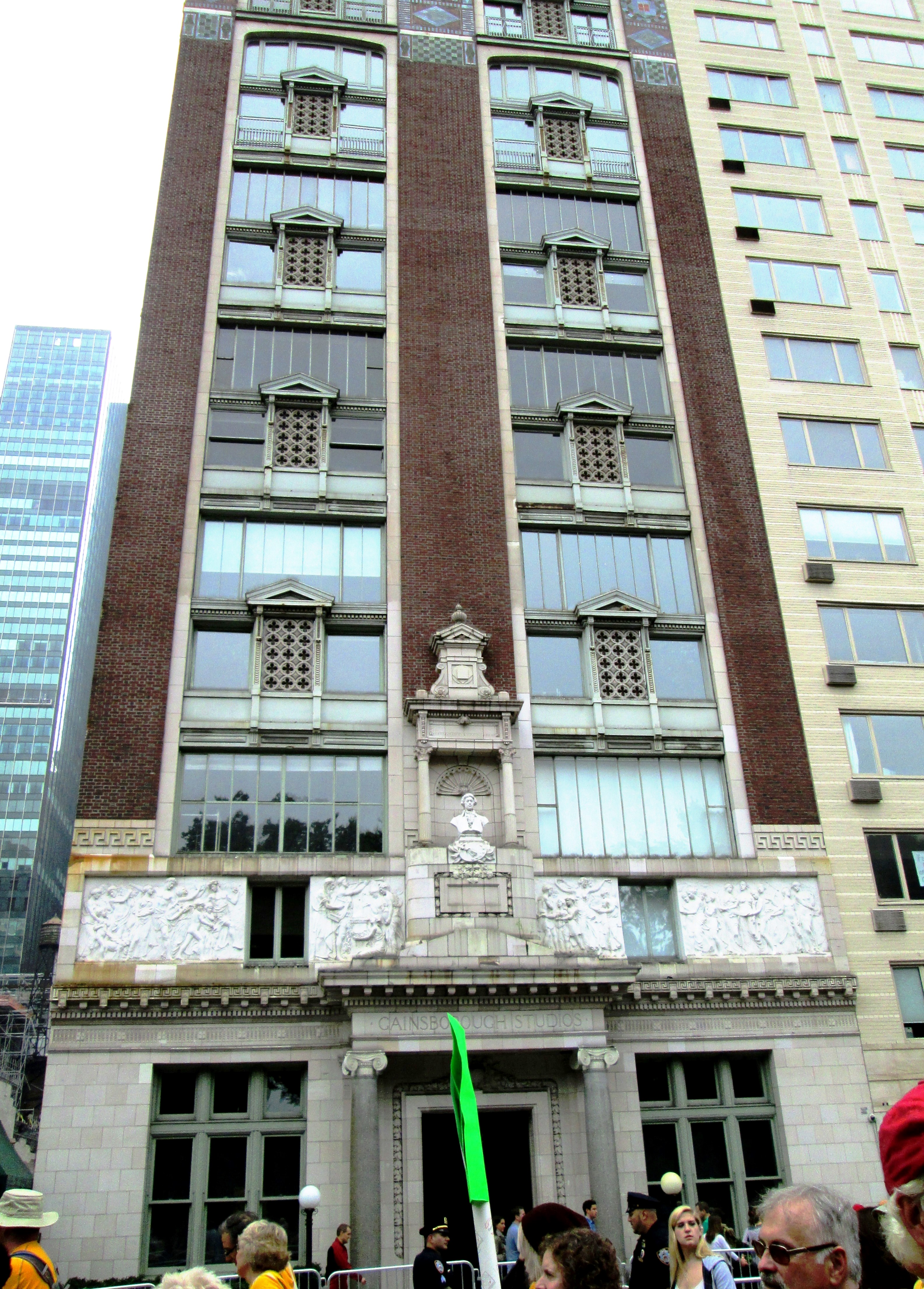 The Gainsborough Studios, an artist's cooperative studio building at 222 Central Park South between Seventh and Eighth Avenues in Modtown Manhattan, New York City, was built in 1907-08 and was designed by Charles W. Buckham, with the interior by Isidore Konti. (Sources: NYTimes and NYCLPC Designation Report)